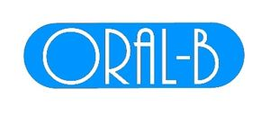 The logo of Oral-B used from 1965 to 1980.